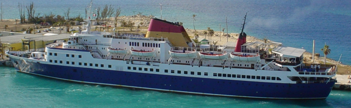 Photographed at Freeport, Bahamas in January 2006.